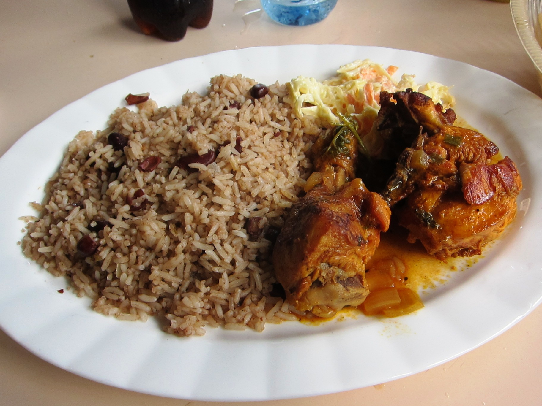 . Licensing